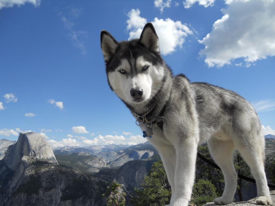 Male Siberian Husky with Two Blue Eyes. Photo taken at Yosemite National Park, California, USA.